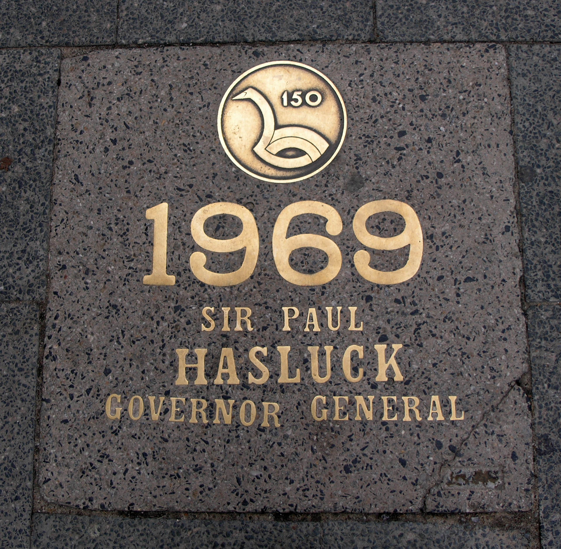 Bronze tablet commemorating notable figure in Western Australia's history